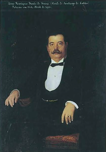 Portrait of Lino Henrique Bento de Sousa, 1st Count of Santiago de Lobão (1857-1921), 1927.